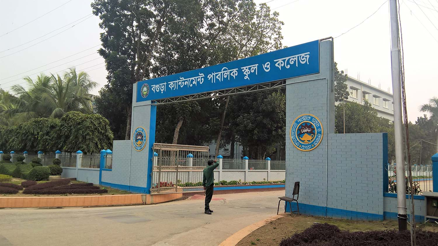 Majhira Cantonment, also known historically as Bogra Cantonment, is a cantonment about 10 kilometers south of Bogra town in northern Bangladesh.